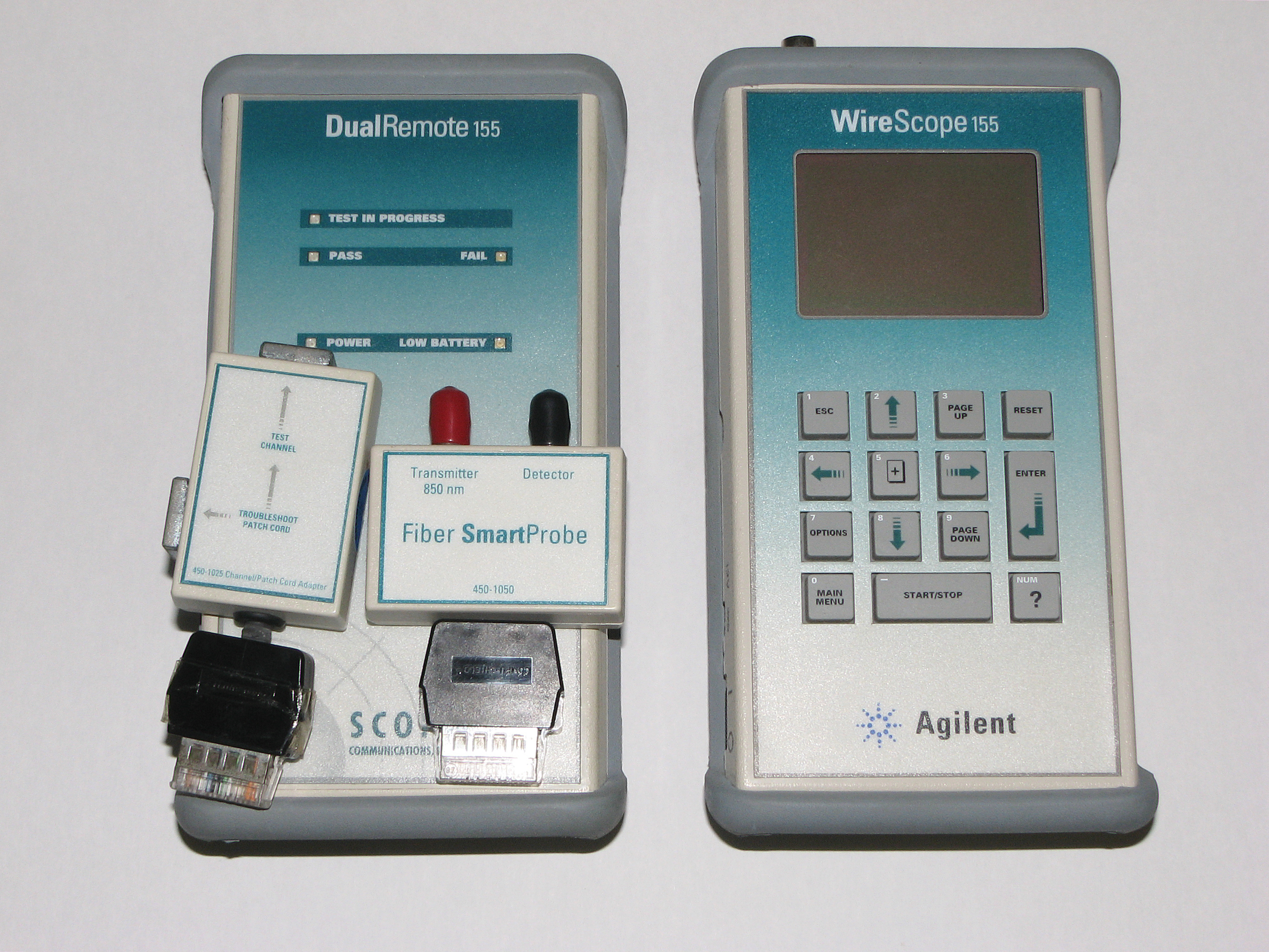 A sophisticated network cable tester and analyzer/certifier.